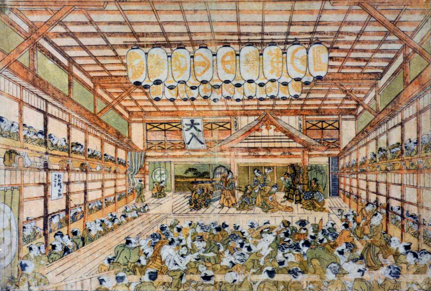 Shibai Ukie by Masanobu Okumura, depicting the Kabuki theater Ichimura-za in its early days.